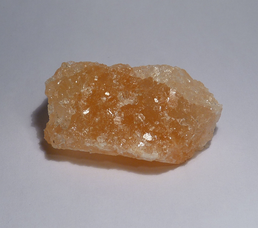 Carnallite Locality: Bischofferode Potash Works (Thomas Müntzer Potash Works), Bleicherode, Thuringia, Germany (Locality at ) Specimen size 8 x 6 cm. Specimen and photo Leon Hupperichs.